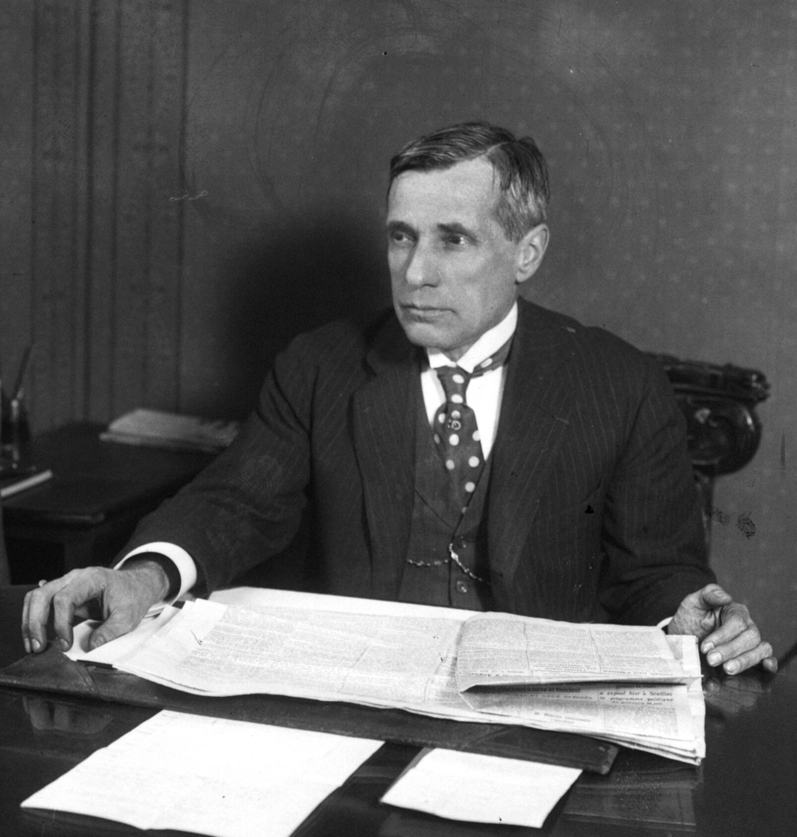 French bicycle racer and sports journalist Henri Desgrange (1865-1940) at his desk as editor-in-chief of L'Auto in 1914